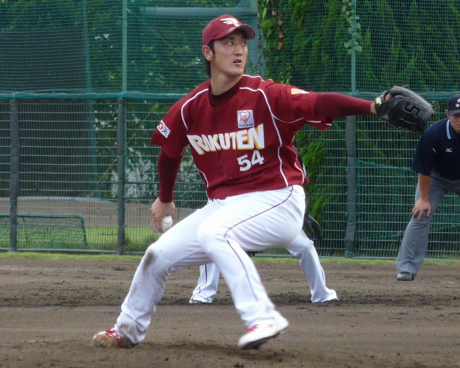 Hisashi-Kitani